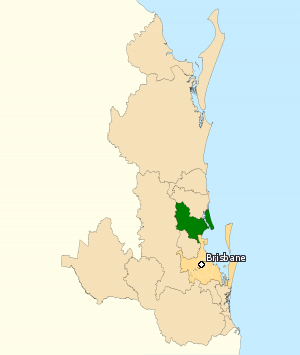 This image incorporates data that is: © Commonwealth of Australia (Australian Electoral Commission) 2009 Division of Longman 2010